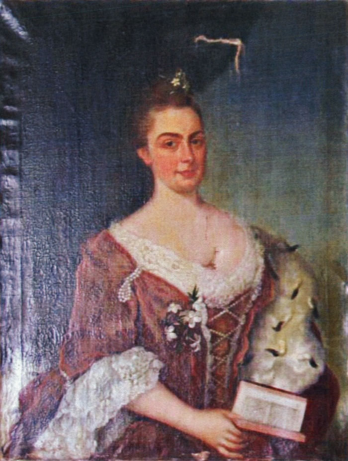 18th-century portrait, by unknown author, traditionally identified as Isabel Breyner e Meneses, 1st Countess of Ficalho (1719–1795)